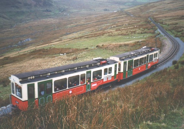 A pair of diesel electric railcars on the Snowdon Mountain Railway.